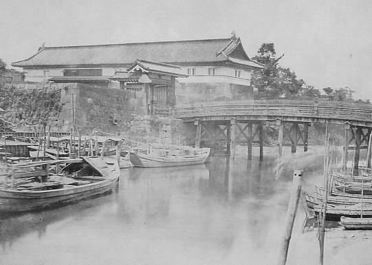 Asakusa-Mon(now defunct gate)